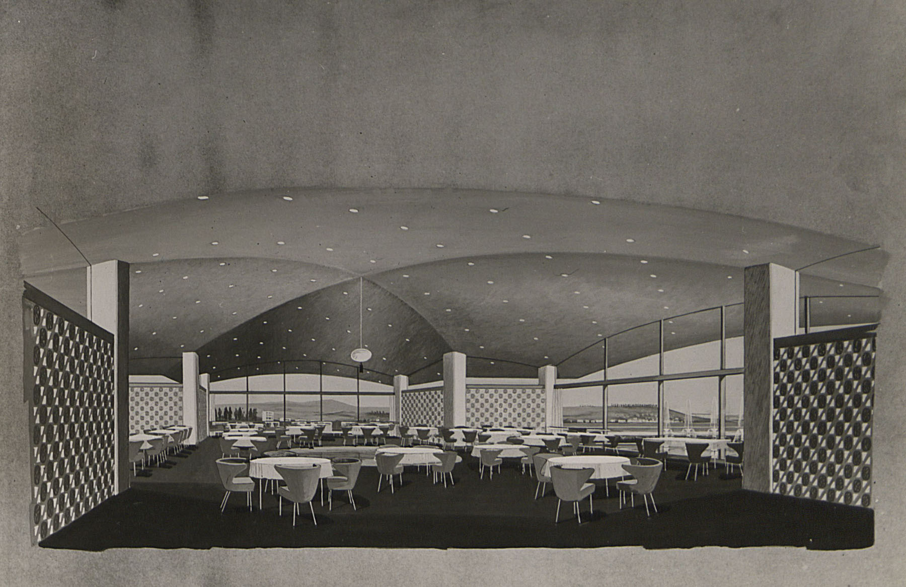 Hilton Hotel, 1951-1955, Harbiye, İstanbul, restaurant, perspective sketch Rahmi M. Koç Archive & SALT Research, Sedad Hakkı Eldem Archive Hilton Oteli, 1951-1955, Harbiye, İstanbul, restoran, perspektif eskiz Rahmi M. Koç Arşivi & SALT Araştırma, Sedad Hakkı Eldem Arşivi